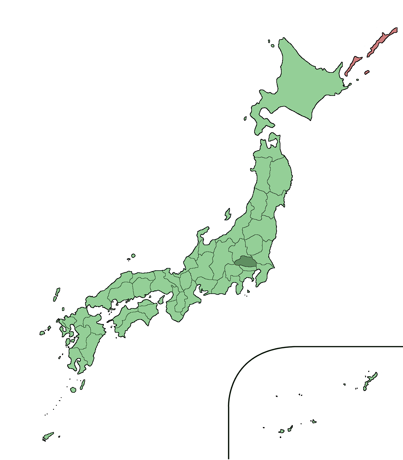 Large size map of Japan with Saitama highlighted, self made but originally based on a japanese mapbook.